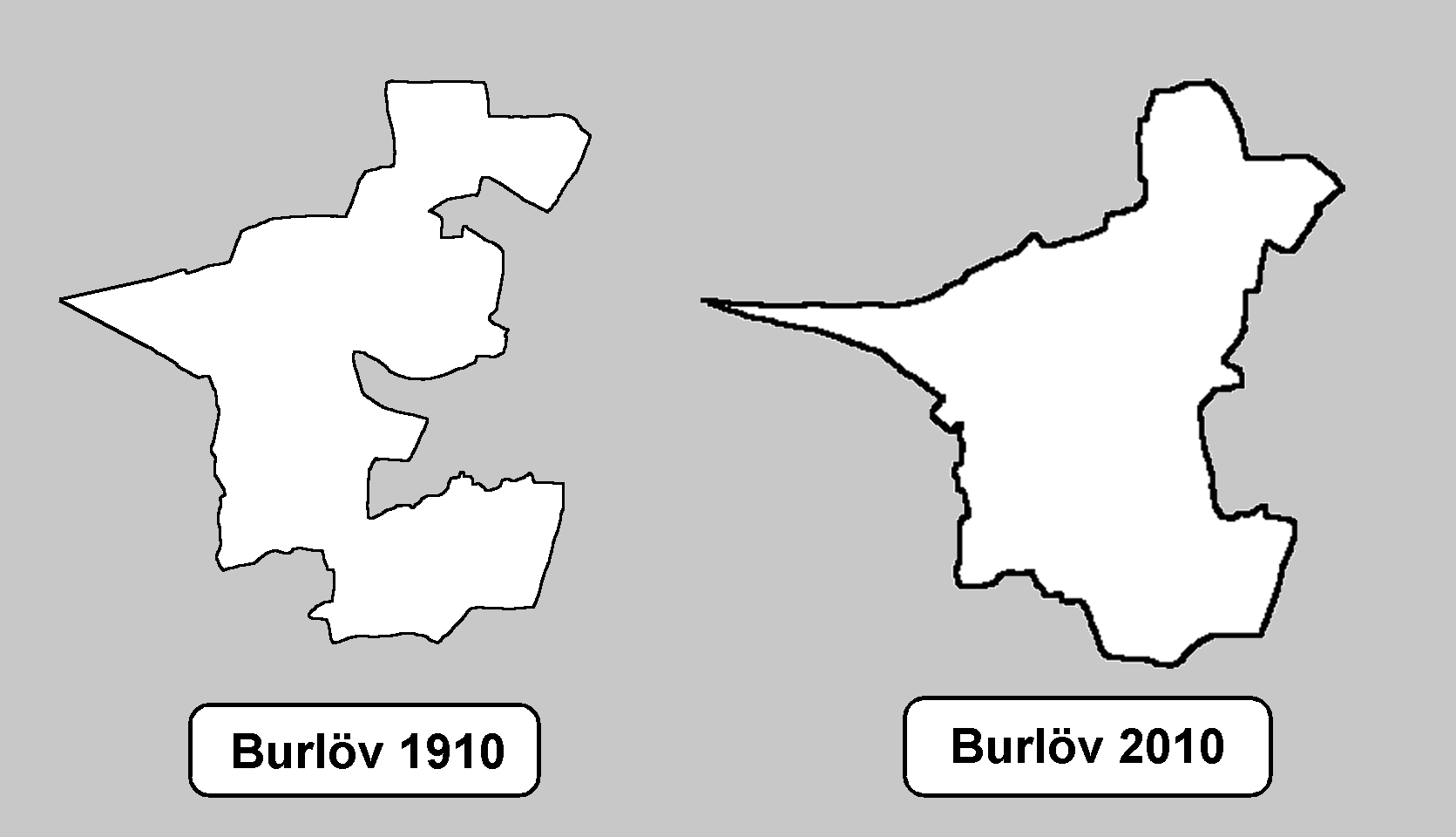 Burlöv socken 1910 and 2010